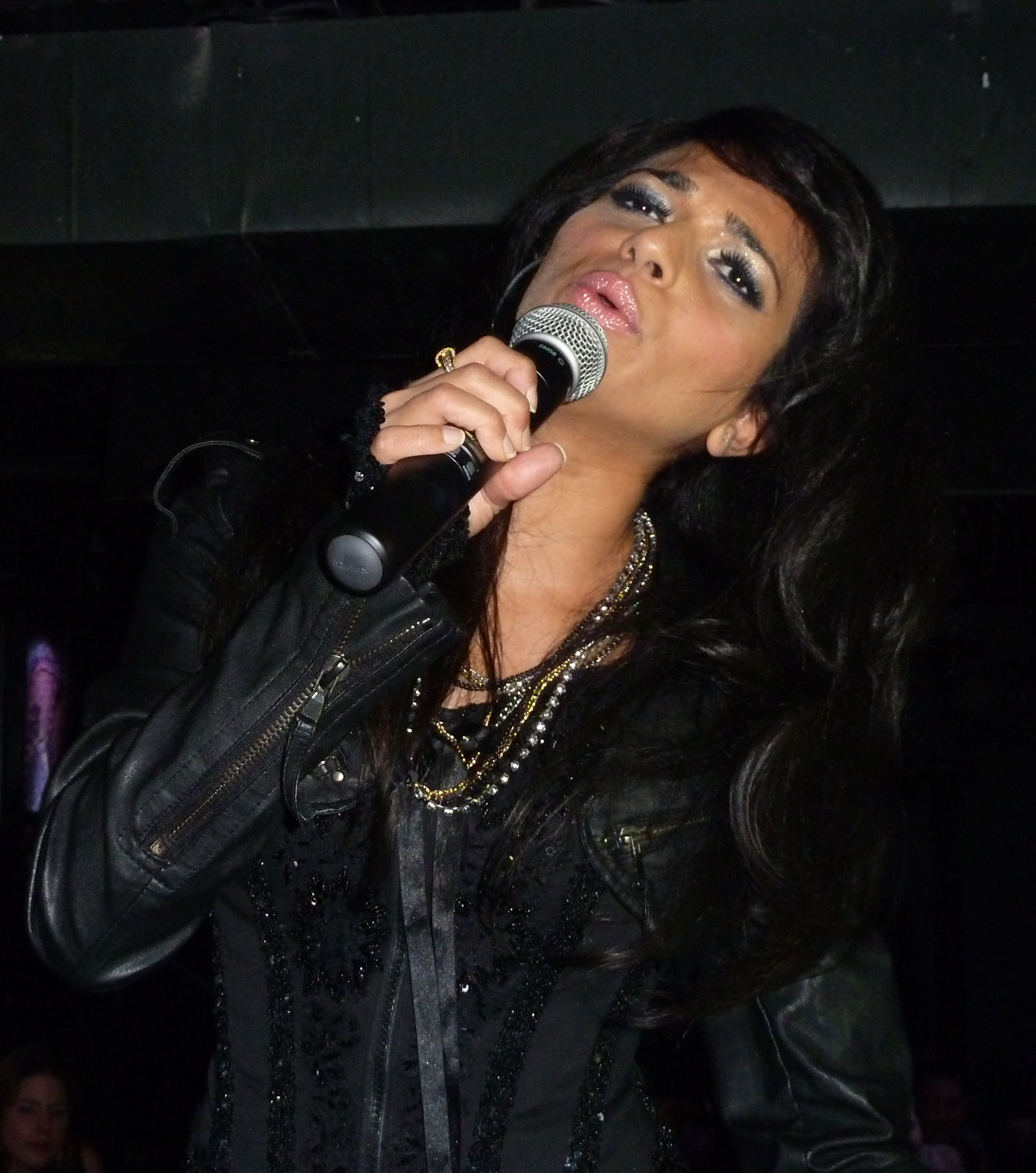 Singer-songwriter Nadia Ali performing at Josephine's, Washington DC